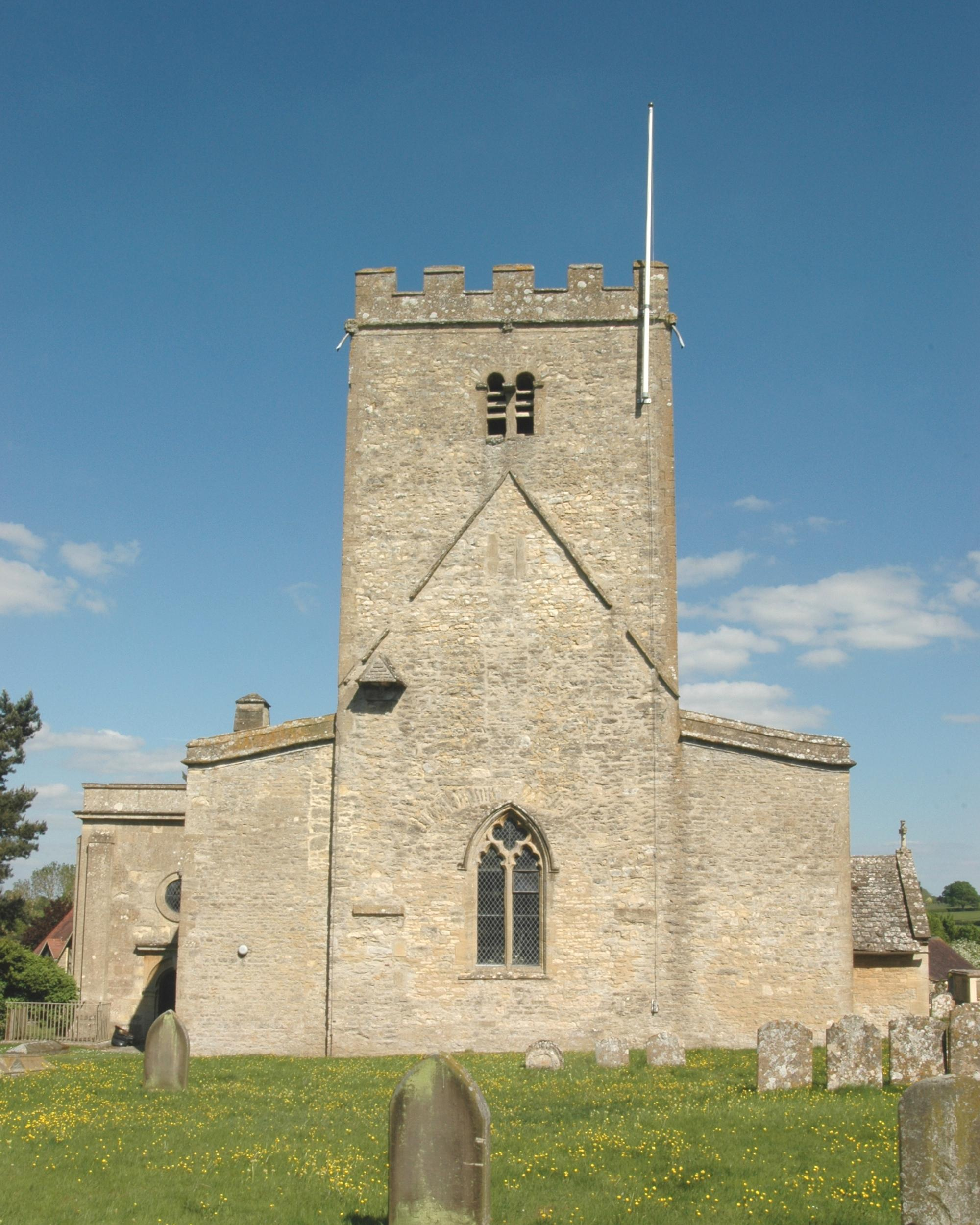 Church of England parish church of St Mary, North Leigh,Oxfordshire, viewed from the west, showing blocked late Saxon tower arch